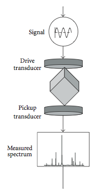 Schematic diagram of RUS measurement